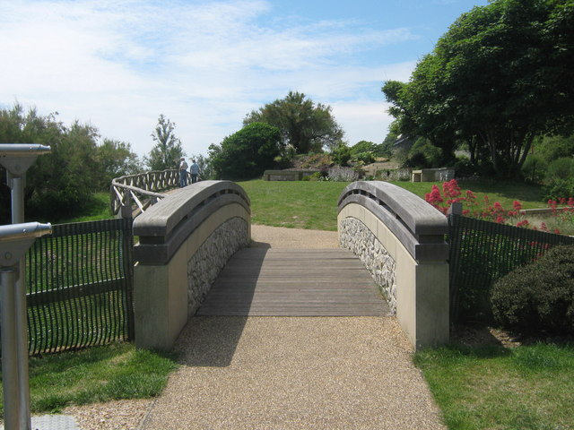 Footbridge in Lower Leas Country Park This country park is near Folkestone. This bridge is near the Market Carpark. Although market has gone, now a seafront carpark. The bridge leads into the country park over a ramp down to the promenade along the sea front.